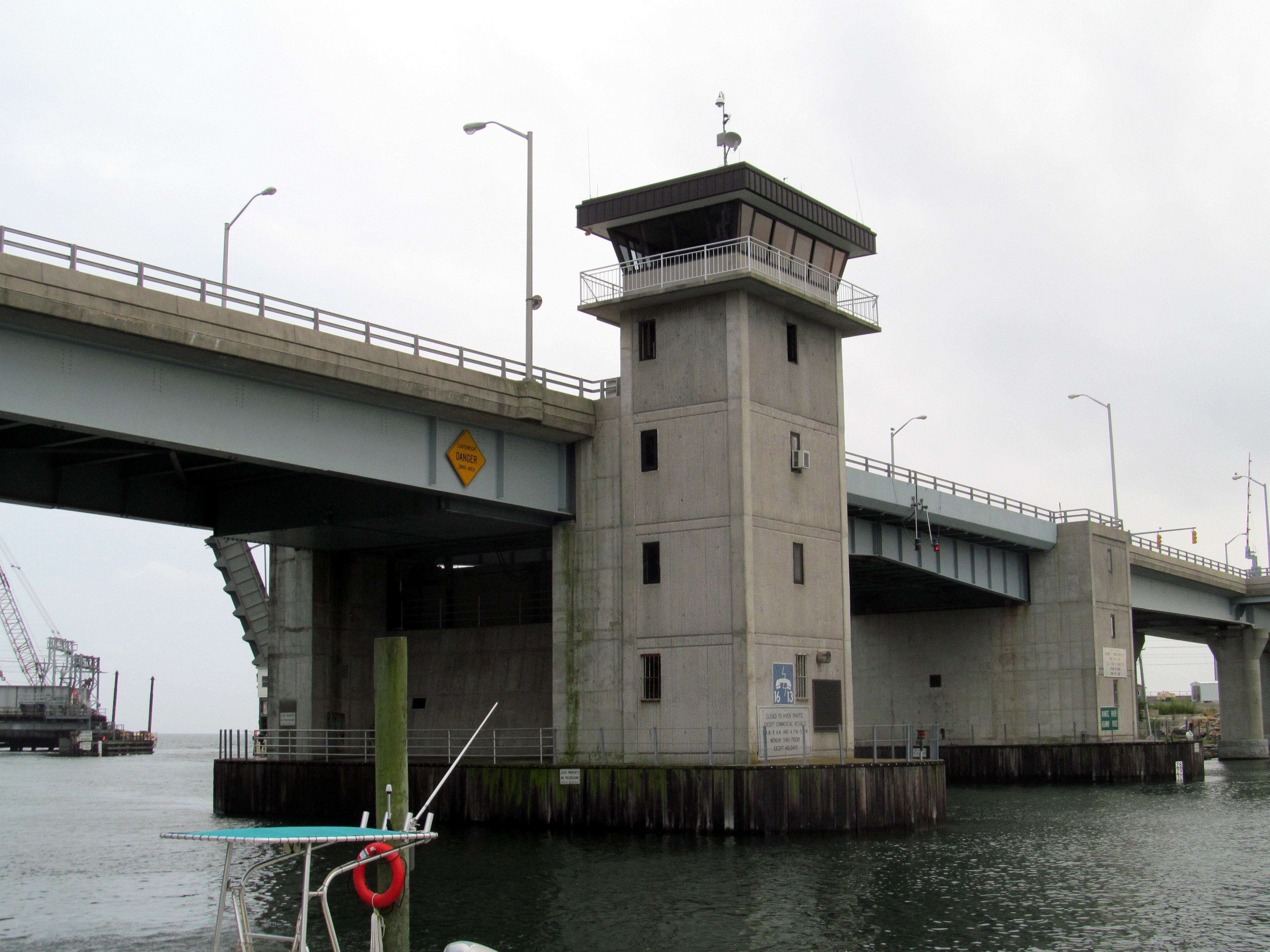 Drawbridge that carries Connecticut Route 156 over the Niantic River between East Lyme and Waterford, seen from the Waterford side